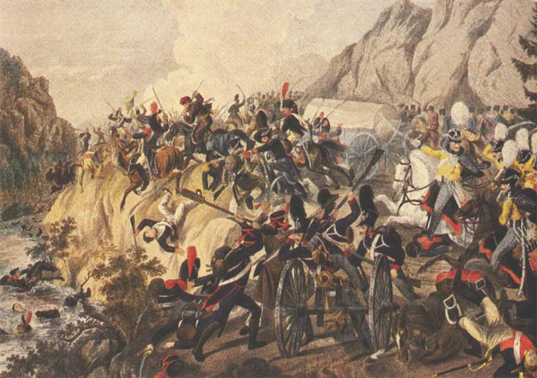 Battle of Katzbach (1813). Prussian soldiers force french troops in Katzbach river.